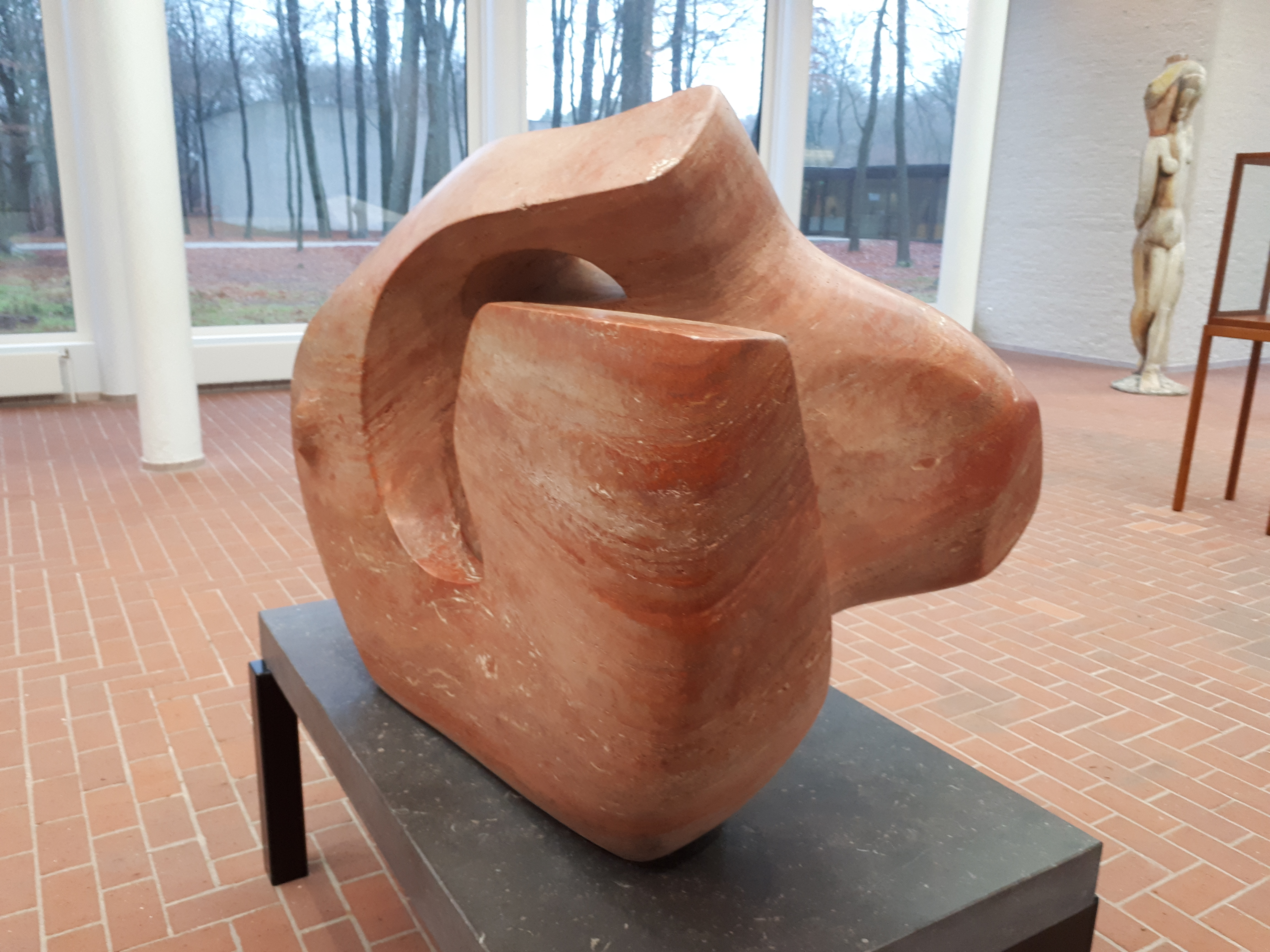 Henry Moore - Sculpture with hole and light (1967, marble) KM 121.381